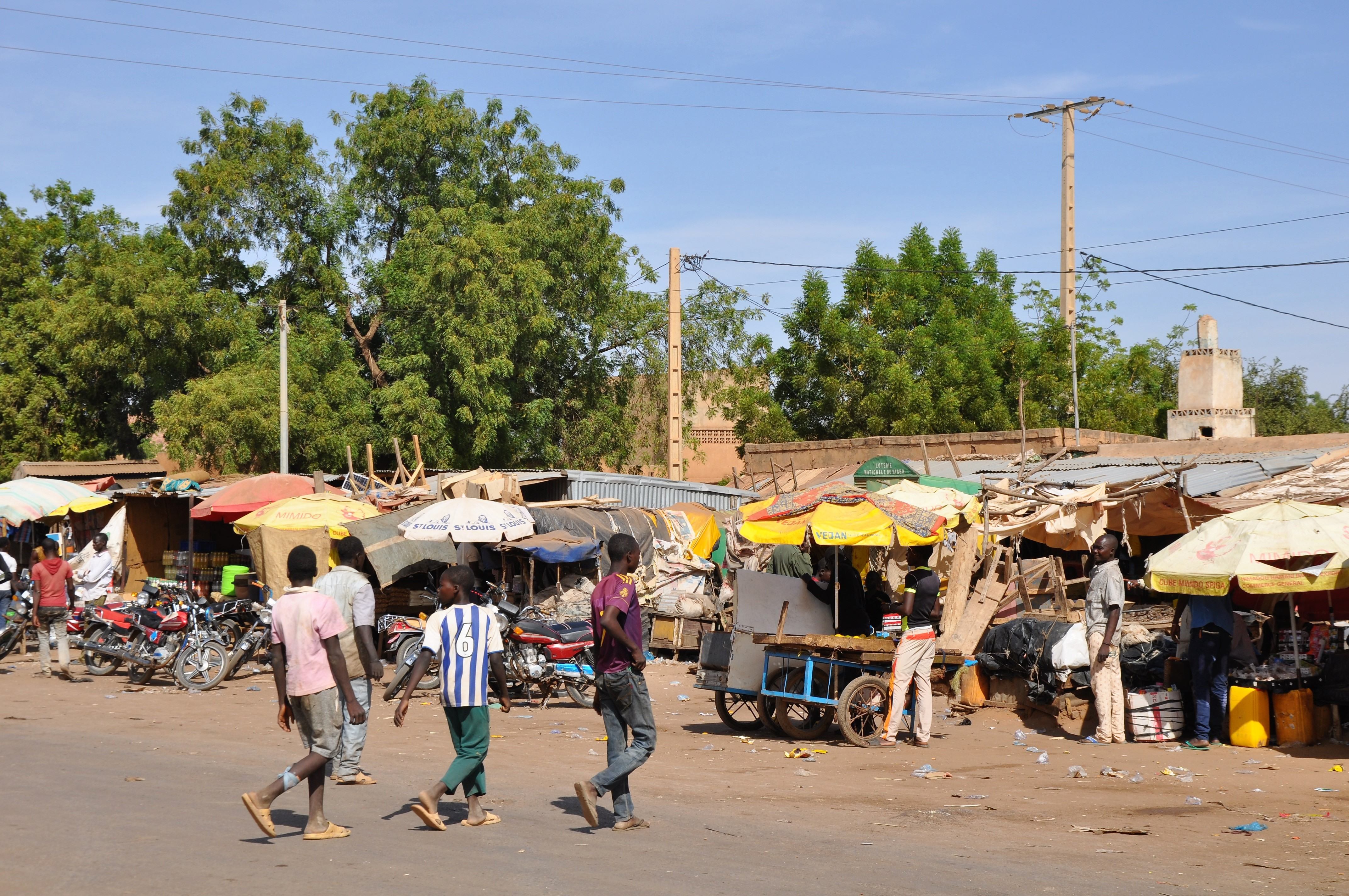 A street scene in the town centre of Dogontdoutchi, Niger (Department of Dogondoutchi; Dosso Region)